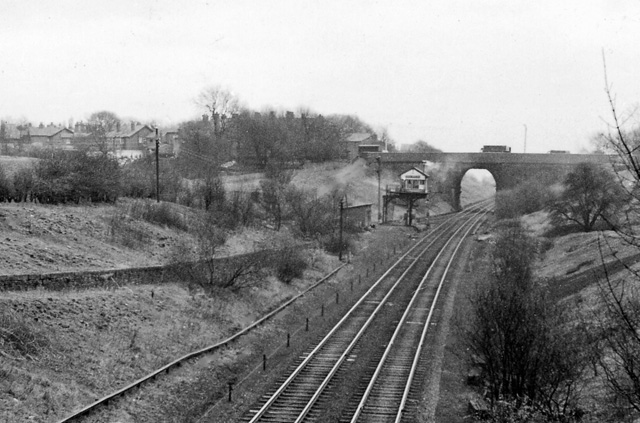 Site of Boar's Head Station. View southward, towards Wigan, Warrington, Crewe etc., on West Coast Main Line, line from Chorley and Blackburn coming in on left by signalbox. Boar's Head railway station closed 31/1/49, Chorley line closed to passengers 4/1/60, completely 12/71.